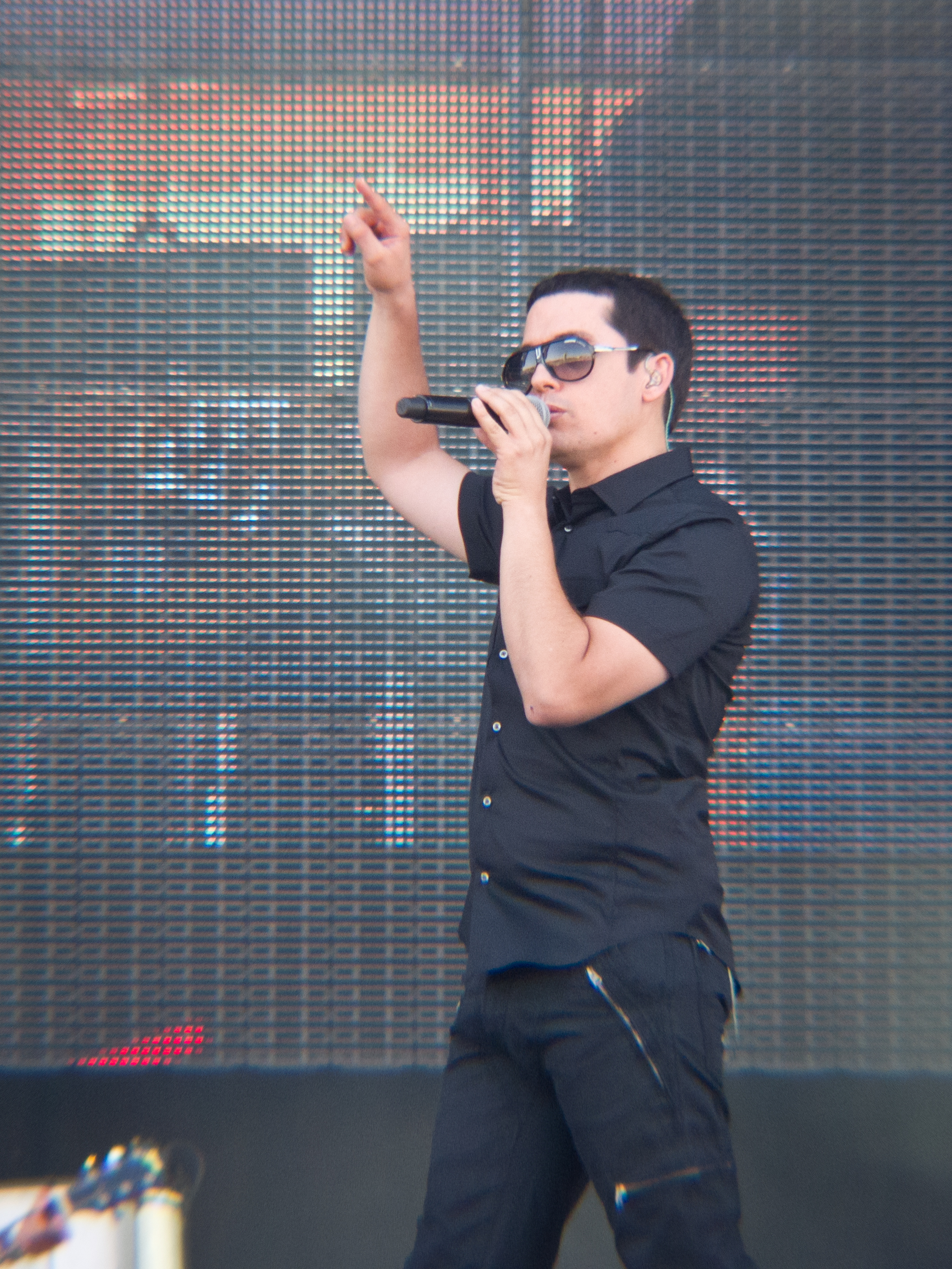 Maldita Nerea in Rock in Rio Madrid 2012.